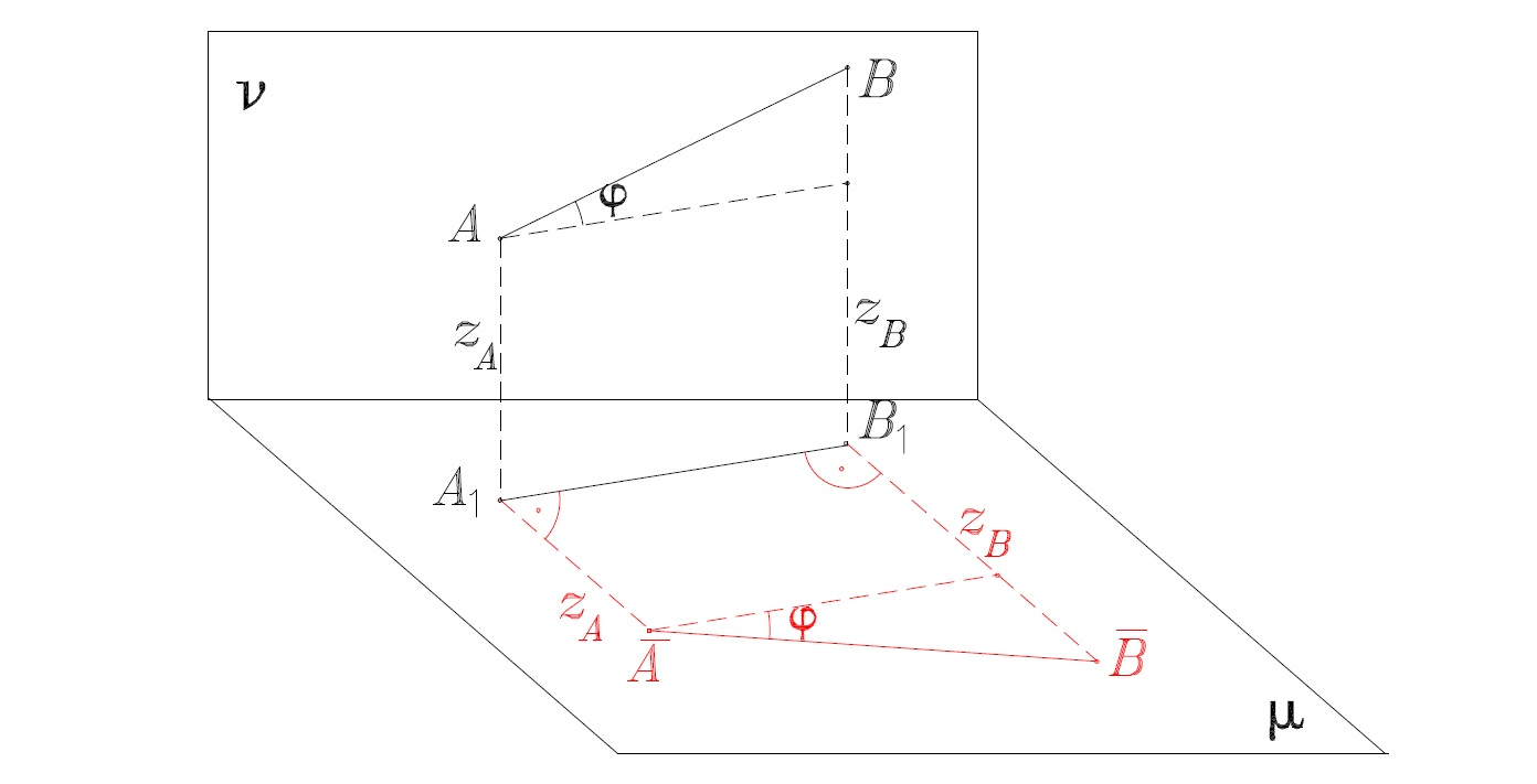 Дължина на отсечка